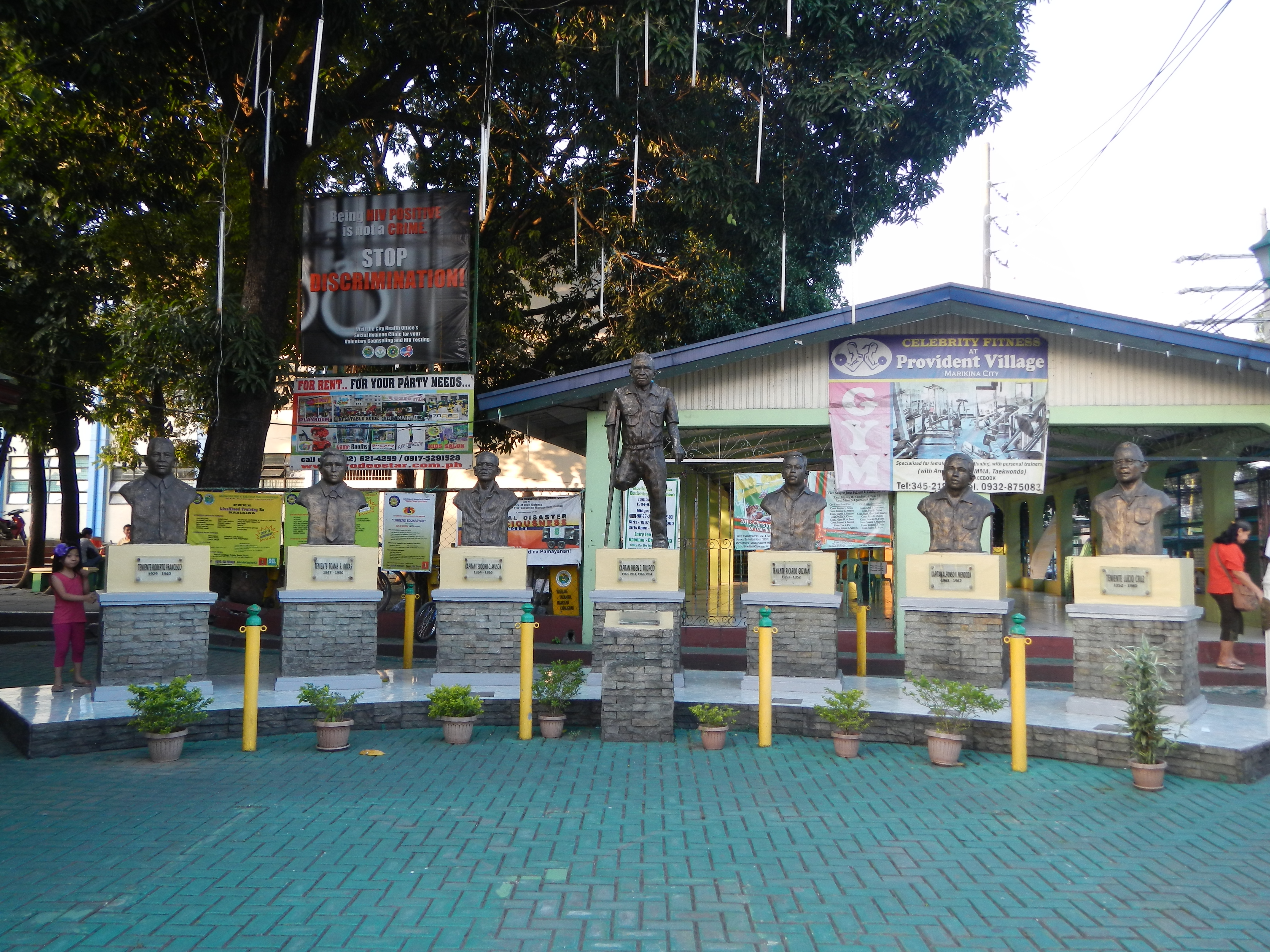 Upload Wizard photos of Marikina City [1] - a) Marikina River [2] under the Marikina Bridge, Upper Marikina River Basin Protected Landscape[3] and b) Barangay Barangaka, Marikina City, Hall [4] Complex, School and Centre of Commerce and c) ) Pentecostal Missionary Church of Christ (4th Watch) [5] and National Christian Life College [6] (NCLC), formerly the Maranatha Christian Academy.